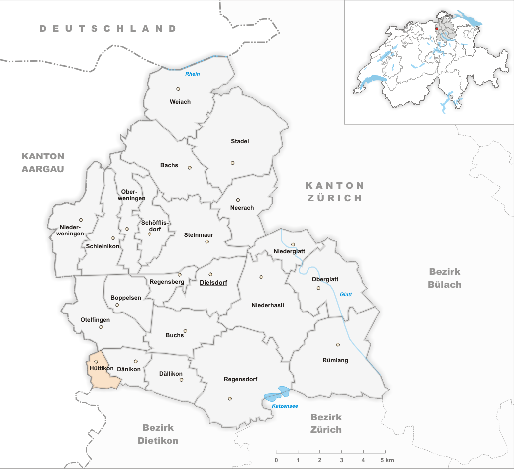 Municipality Hüttikon